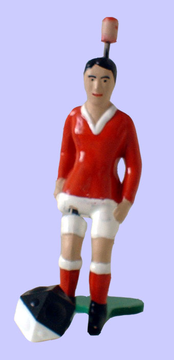 Tipp Kick player with ball